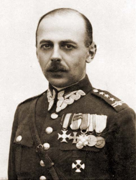 Tadeusz Bór-Komorowski (1895-1966) – General of Polish Army. Photo in a uniform of Colonel before 1939